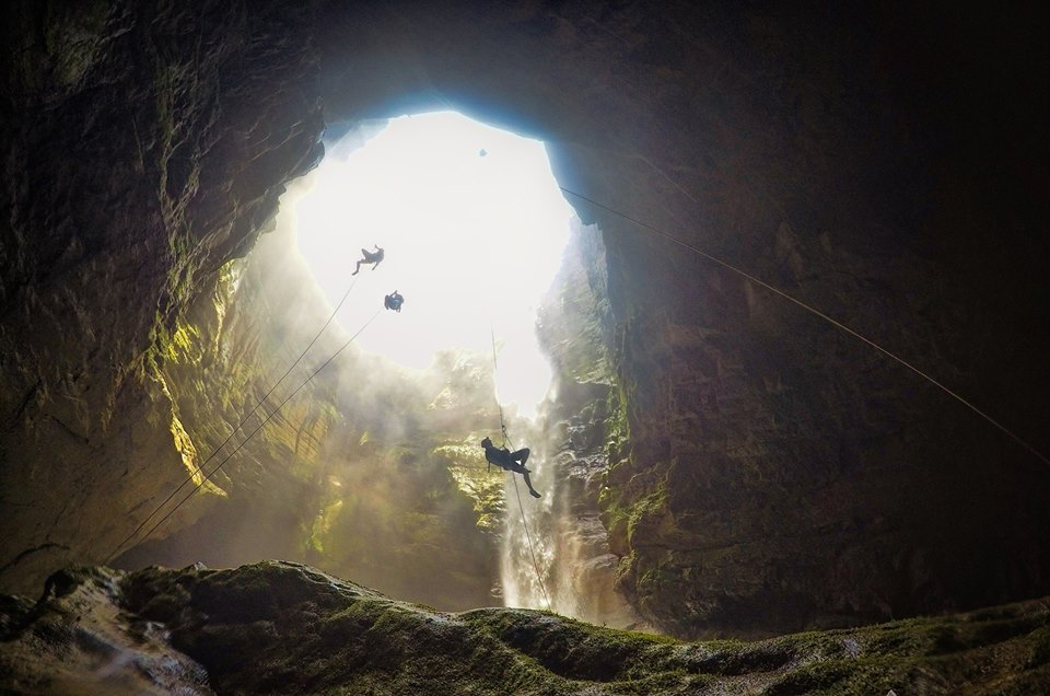 Zongolica